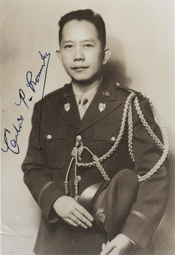 Former congressional delegate from the Philippenes Carlos P. Romulo.